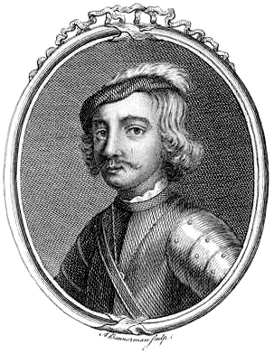 18th cent. portrait of Ildulb mac Causantín (Indulf), King of Scotland (954–962), nicknamed "An Ionsaighthigh".